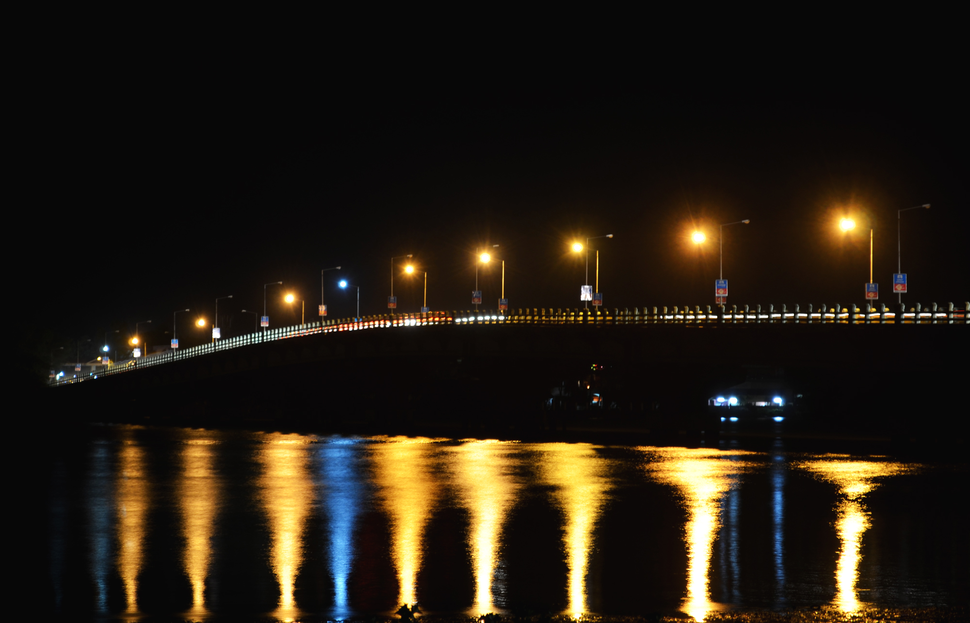 A night view of Mattancherry Bridge